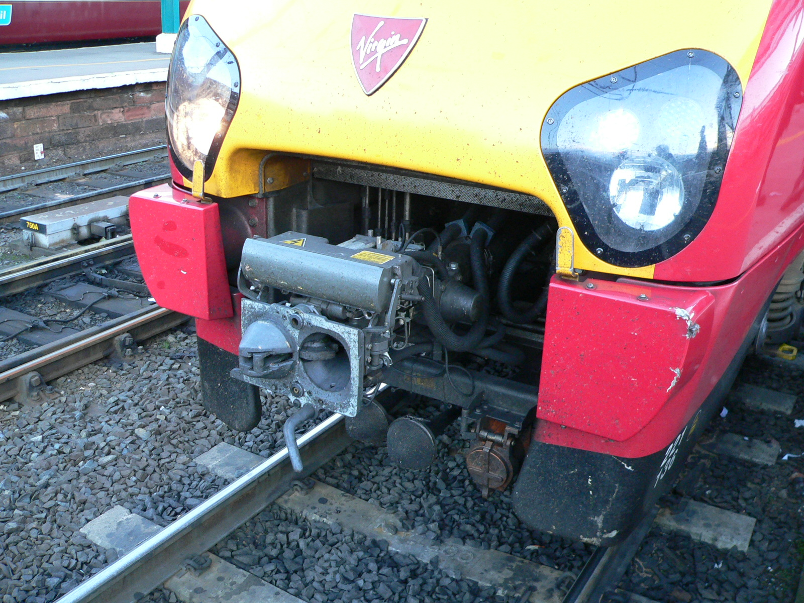 A closeup of the Dellner couplers on Class 221 Virgin Voyager DEMU 221136, photographed at Carlisle station when it was on a service to Glasgow Central.